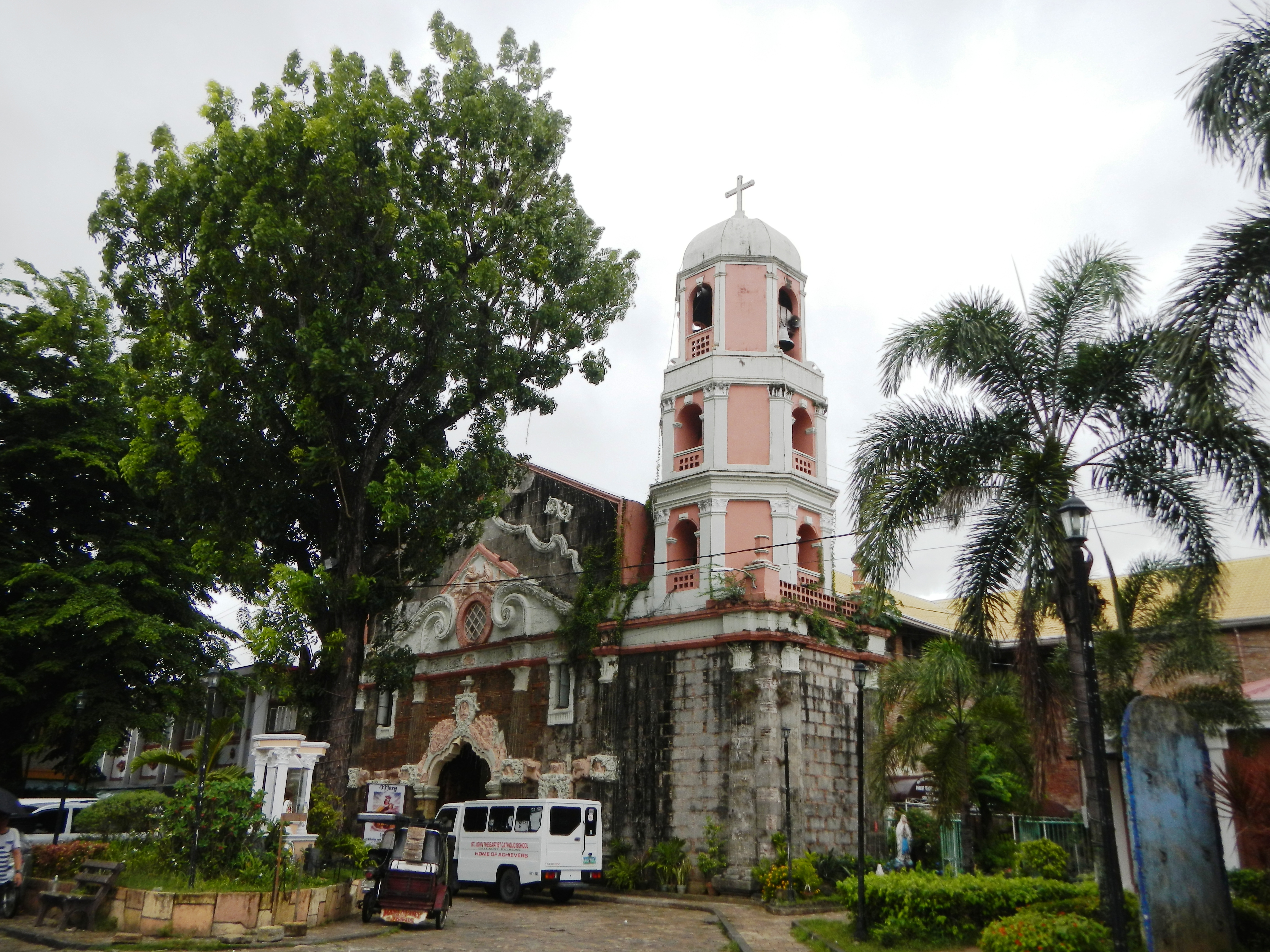 Built in 1575 Saint John the Baptist Parish Church of Poblacion, Calumpit, Bulacan, a heritage, landmark and historical site, consecrated on February 19, 2000, declared a Diocesan Shrine on September 28, 2013, and Pilgrimage Church on March 11, 2013, beside the Saint John the Baptist High School in front of Calumpit Institute.